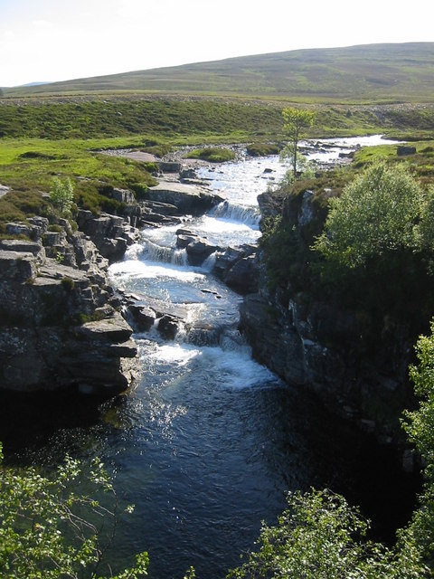 Chest of Dee. River Dee shortly before it meets Geldie Burn at White Bridge.